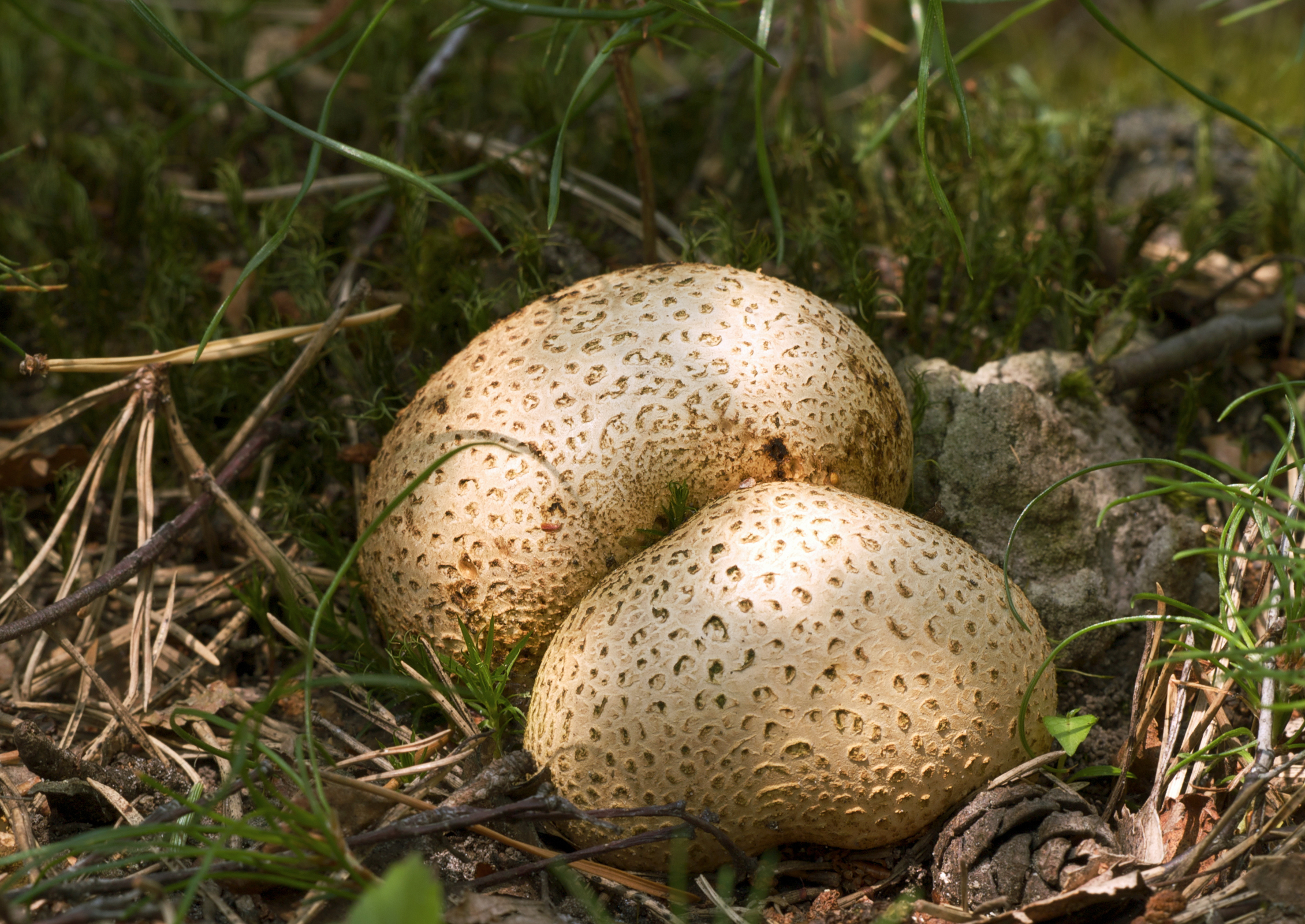 Common Earthball (Scleroderma citrinum), Tharandt forest, Germany